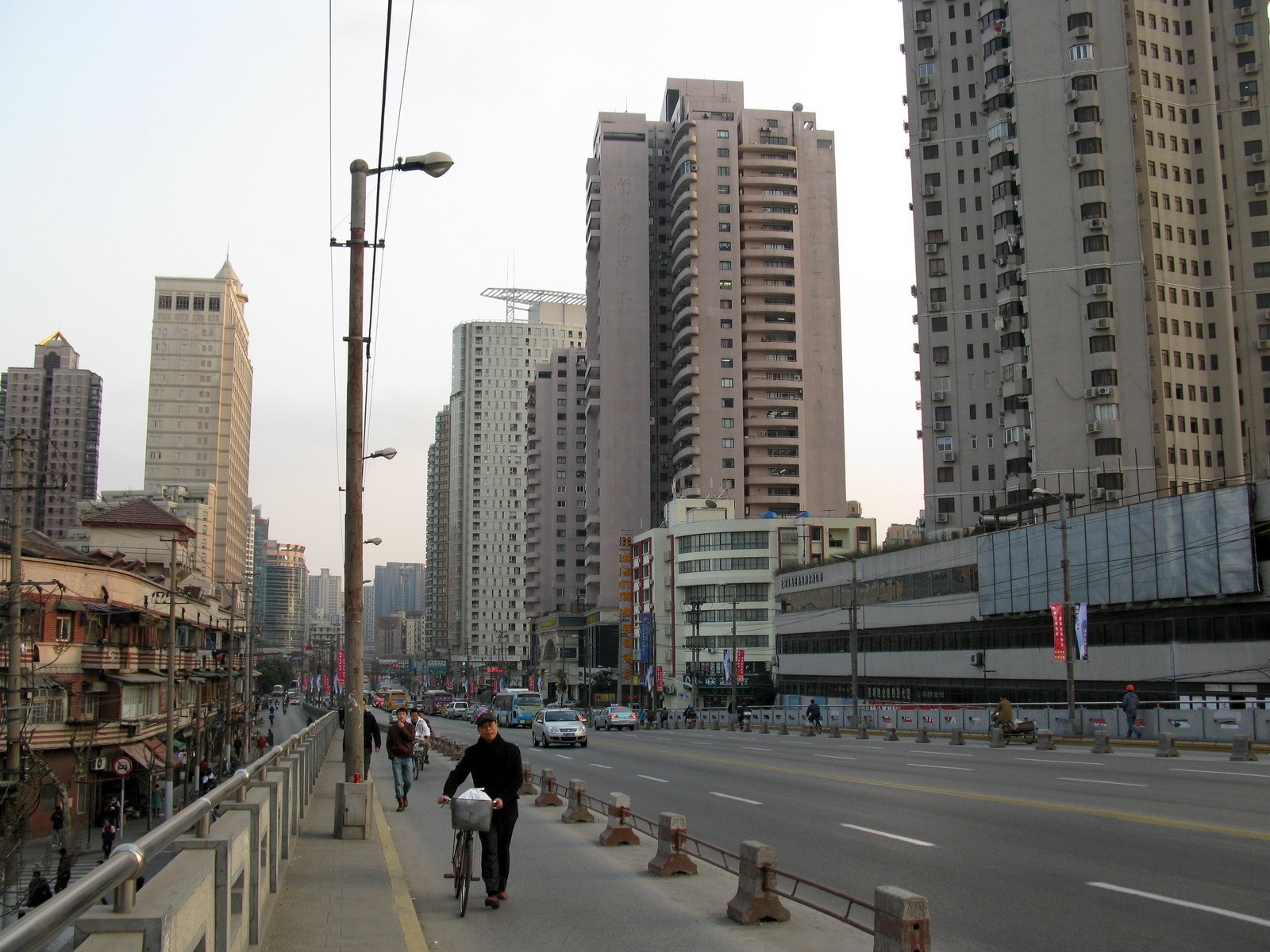 Shimen No.2 Road, Jing'an District